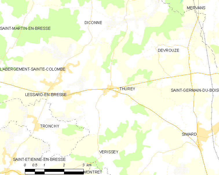 Map of French municipality